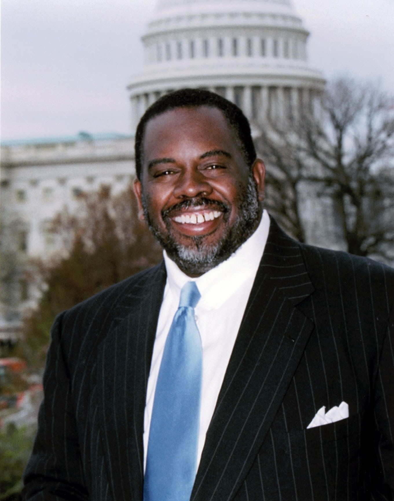 U.S. Congressman Albert Wynn.